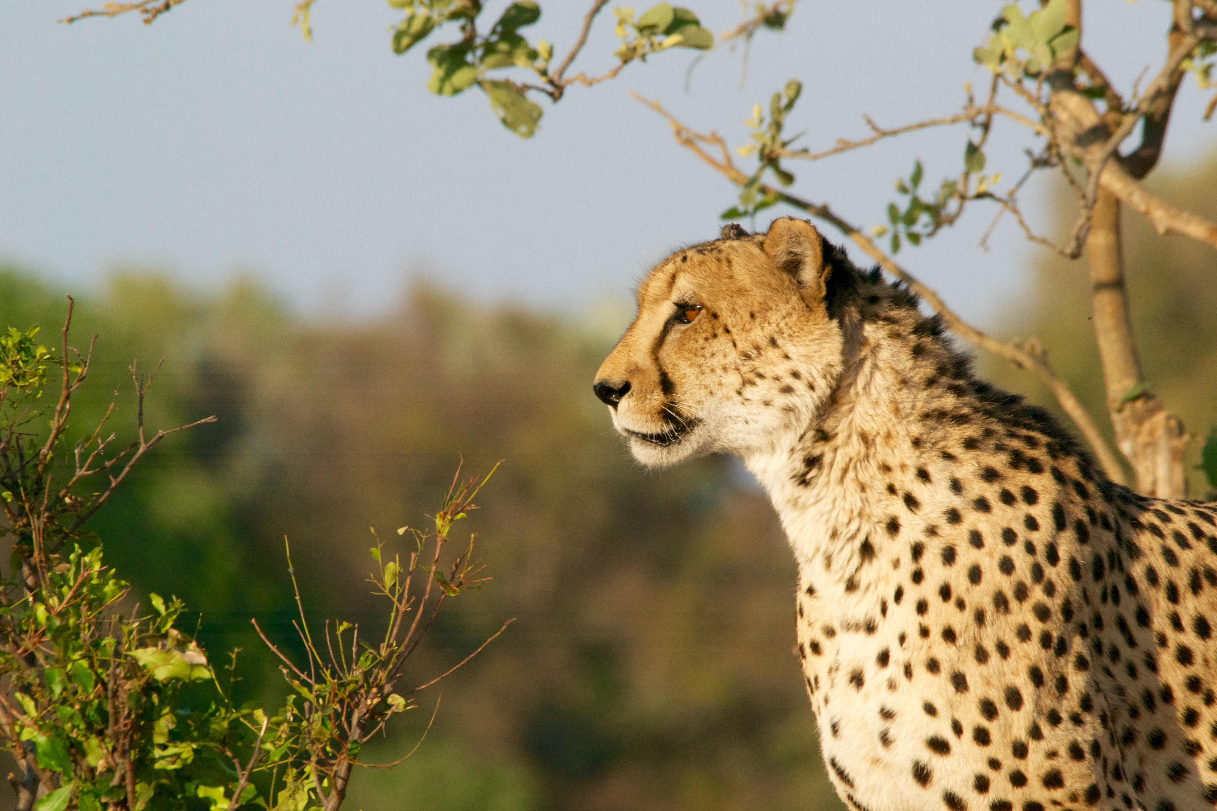 Botswana